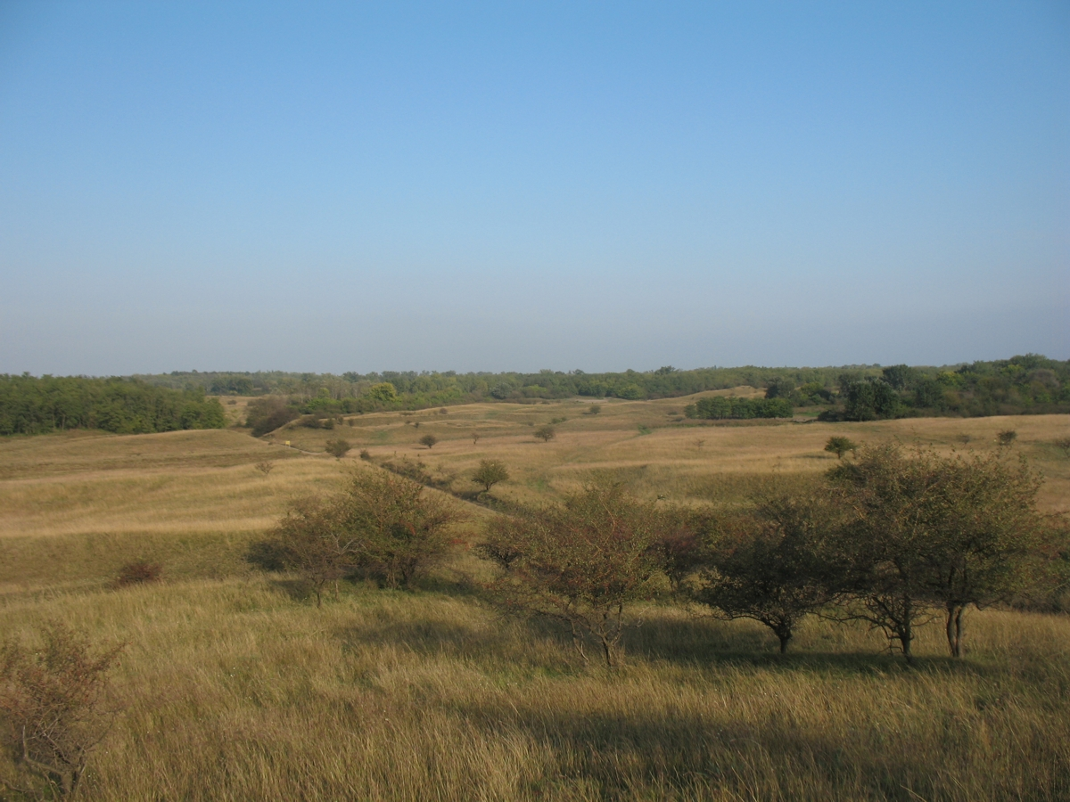 Deliblatska peščara, near Dolovo,Serbia.